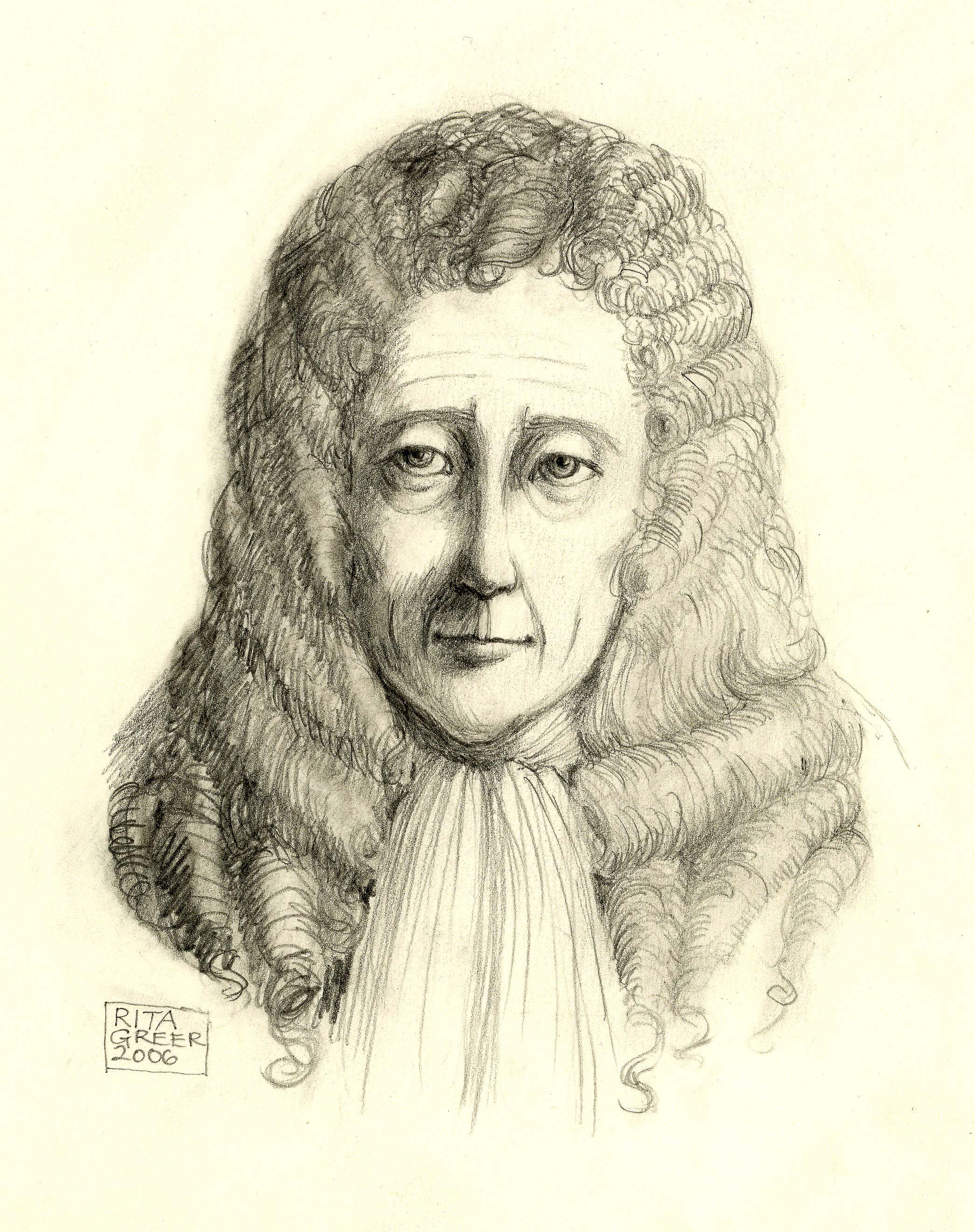 No drawing of Robert Hooke seems to have survived. This one is reconstructed from contemporary descriptions by two close friends – John Aubrey and Richard Waller. Note the popping eyes, thin face and nose, sharp chin and small mouth with a thin upper lip, also a highly intelligent appearance. Pencil drawing by Rita Greer 2006.